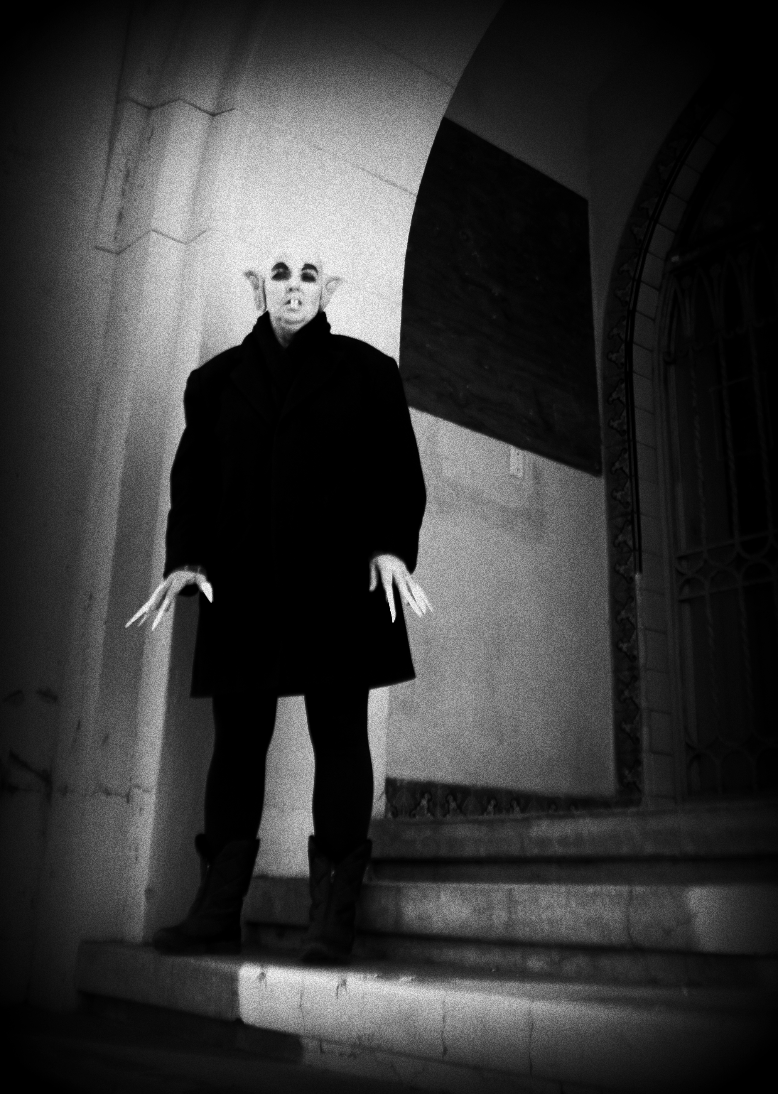 Gerbic as Nosferatu 2013